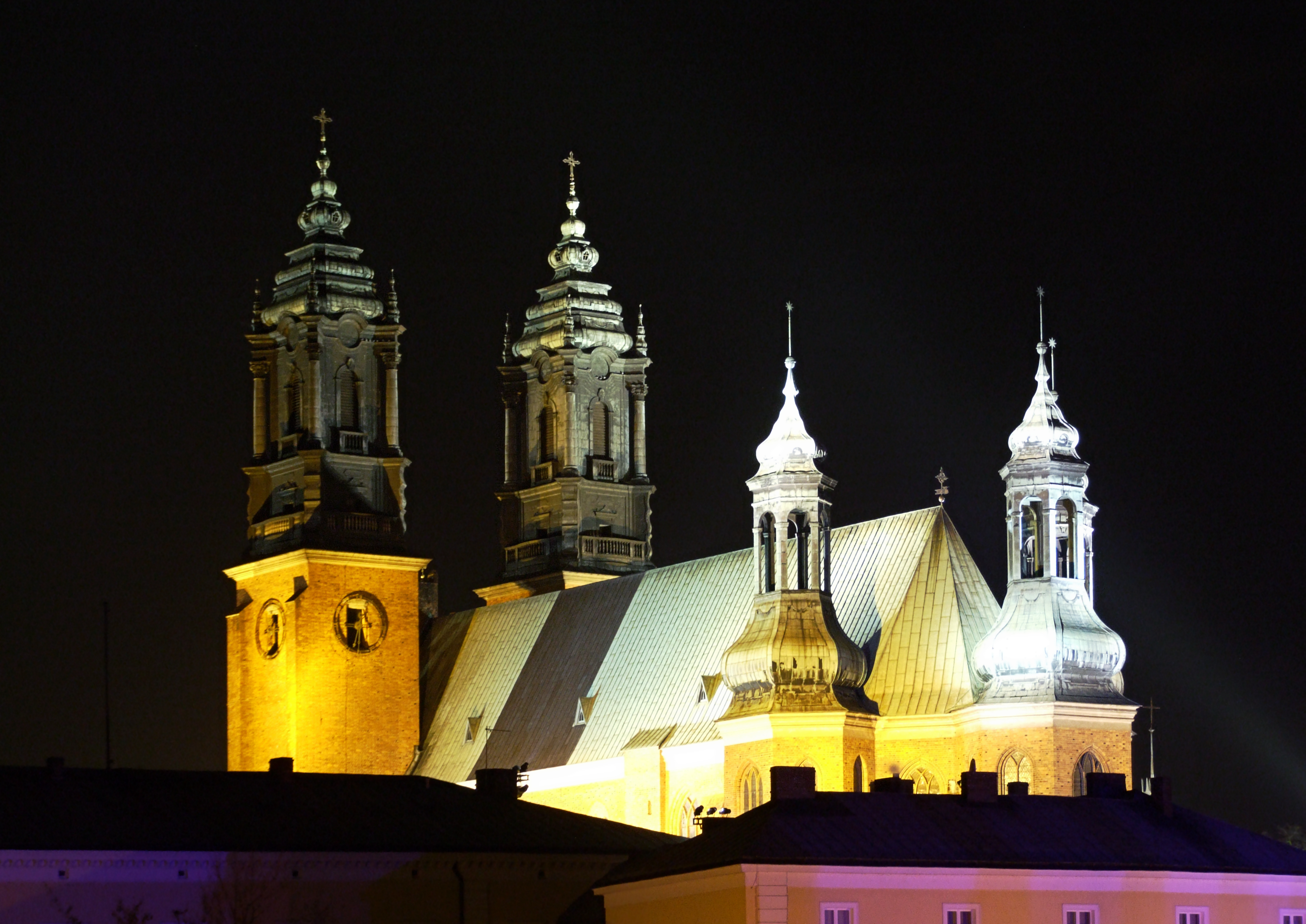 Poznań; Archicatedral Basilica of St. Peter and St. Paul